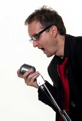 guy harris voiceoverguy